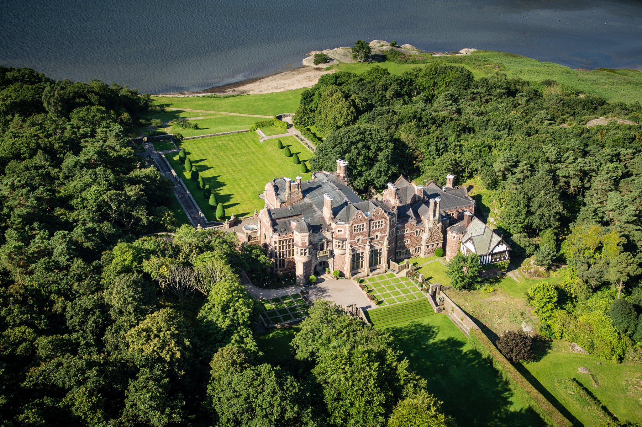 Tjolöholm Castle viewed from above